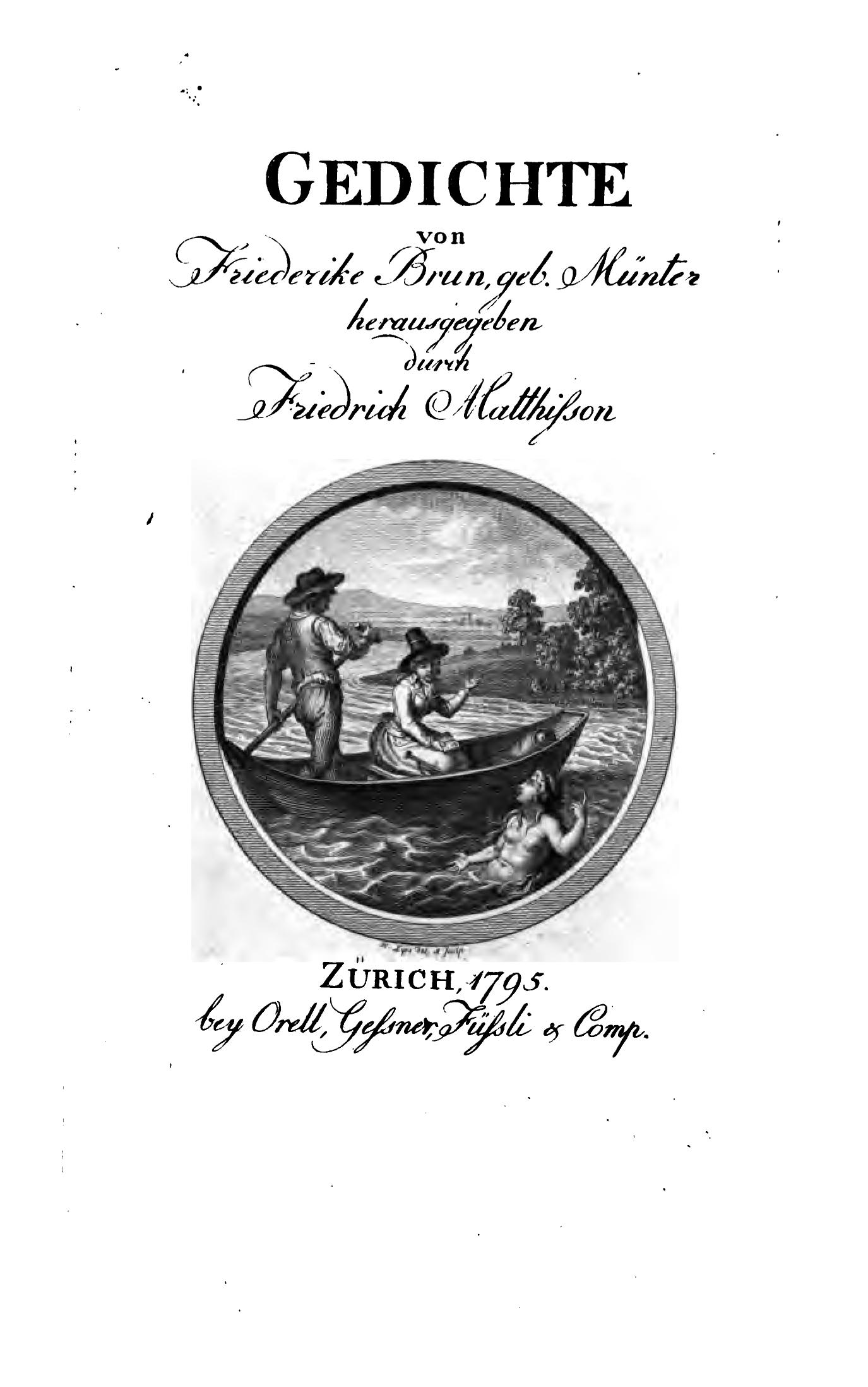 This is a scan of the historical document